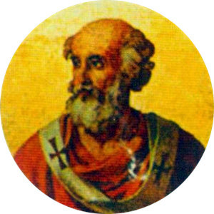 Portait of Pope Boniface III in the Basilica of Saint Paul Outside the Walls, Rome